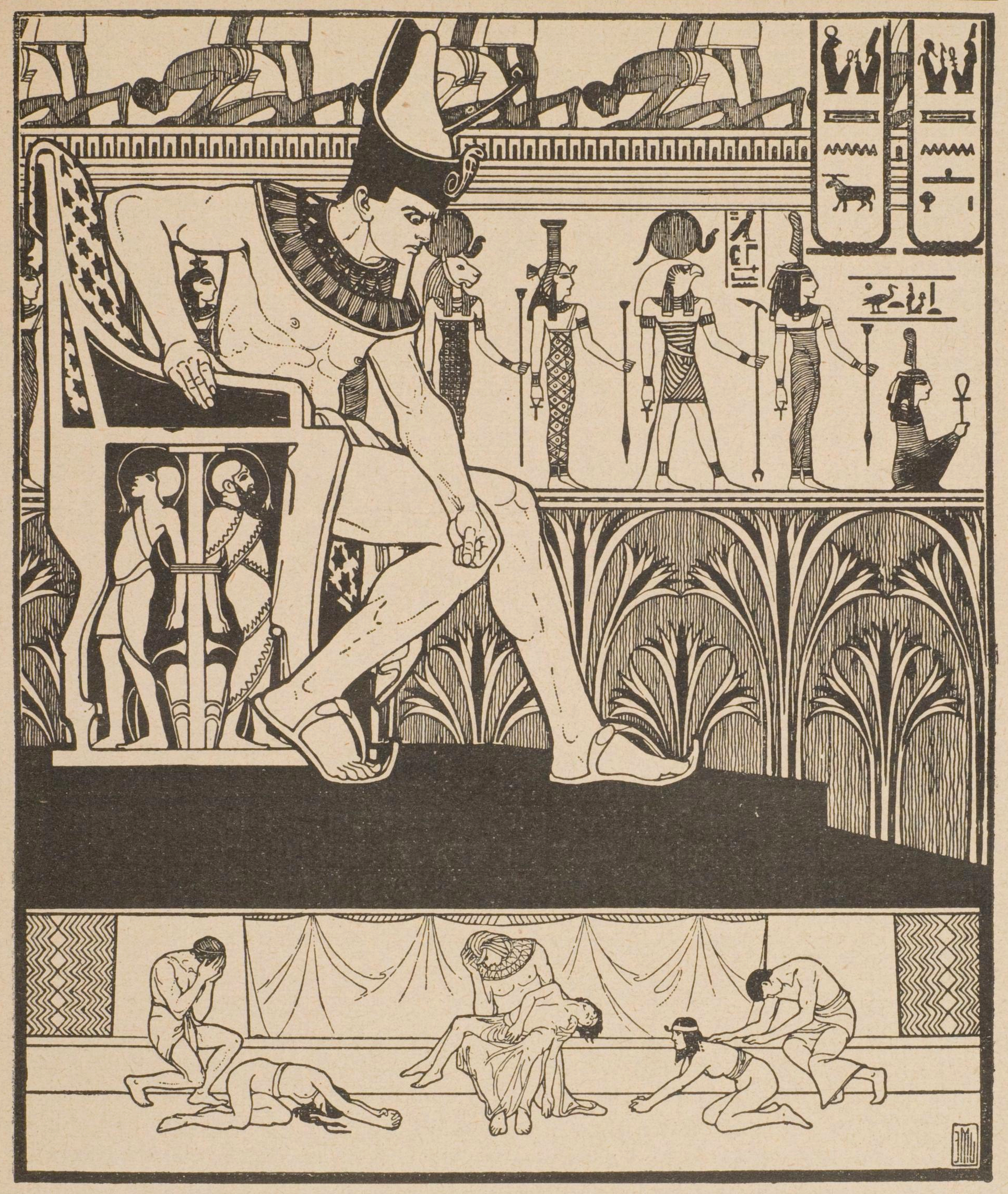 Pharao. The king has the features of Merneptah, the Pharao who has been identified as the Exodus Pharao if a late date is accepted. The throne is depicted after the original throne. It was custom to depict representants of subdued peoples in chains beside the throne. The depicted Gods are: Sechmet, Isis and Horos. The kinghas on his head the double crown of Upper and Lower Egypt. At the top right is the name of the king "Merneptah". Below the last of the plagues, every firstborn son is found dead.